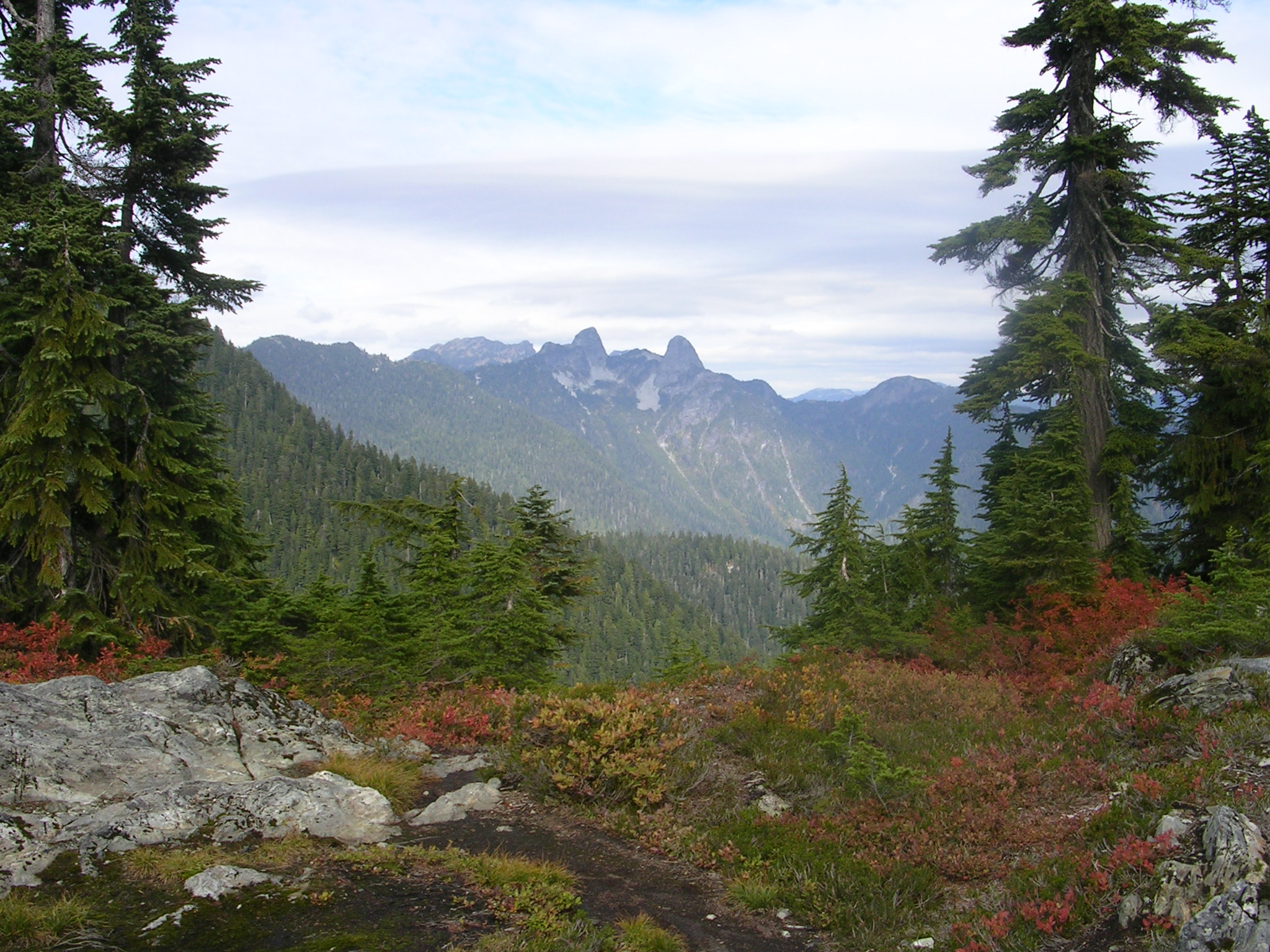 View of The Lions from the Hollyburn Mountain Trail, Cypress Provincial Park, British Columbia